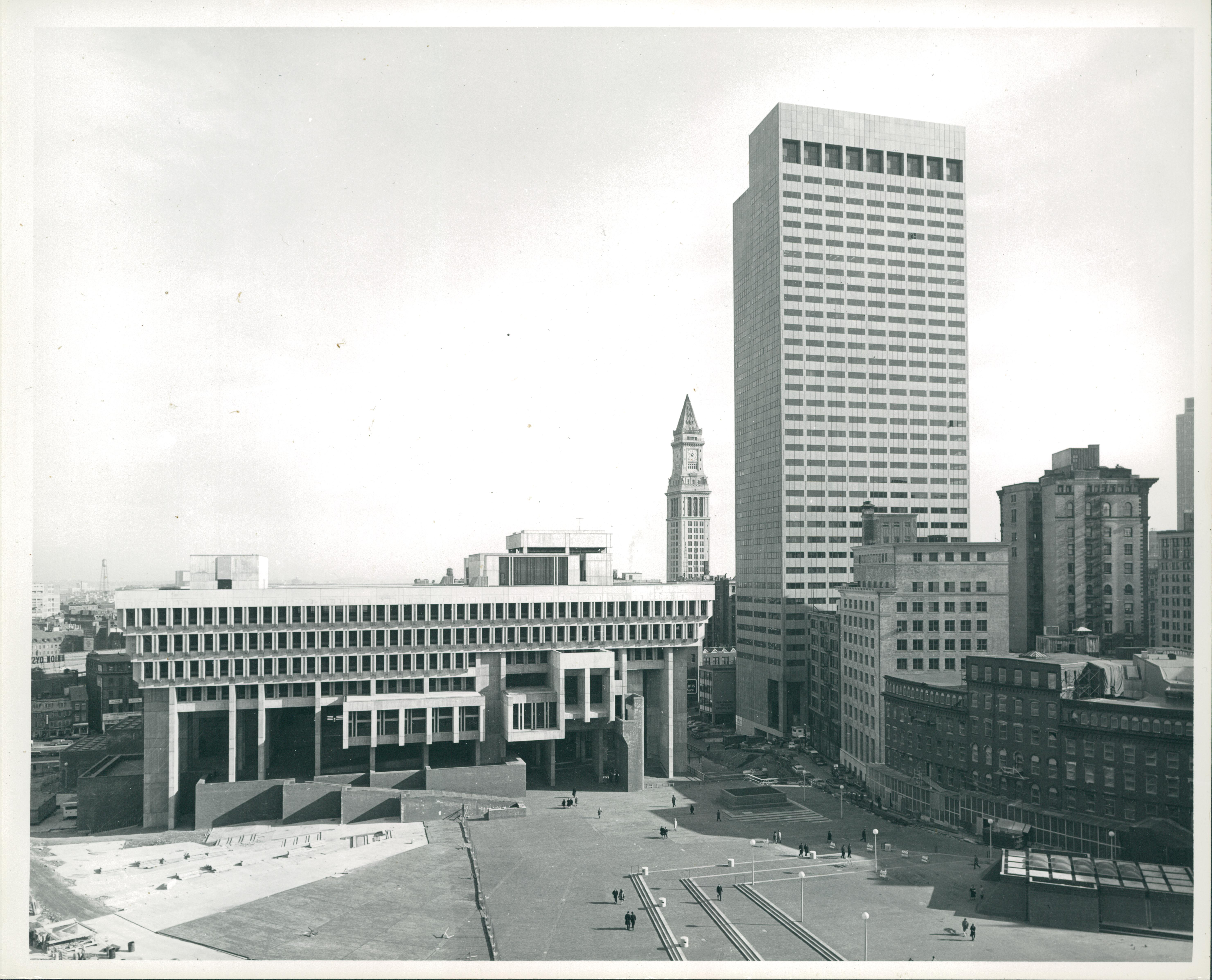 Title: Boston City Hall Creator: Boston Redevelopment Authority Date: circa 1968 Source: Government Center Urban Renewal project, Boston Redevelopment Authority photographs, Collection # 4010.001 File name: R35_0058 Rights: Copyright City of Boston Citation: Boston Redevelopment Authority photographs, Collection # 4010.001, City of Boston Archives, Boston